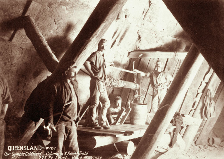 Four miners at head of winze, Columbia and Smithfield at Gympie Goldfield, 775 feet level.